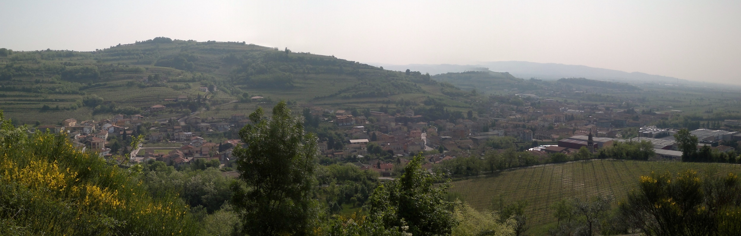 Gambellara's view from the San Marco's church